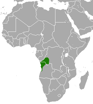 Angolan Talapoin (Miopithecus talapoin) range